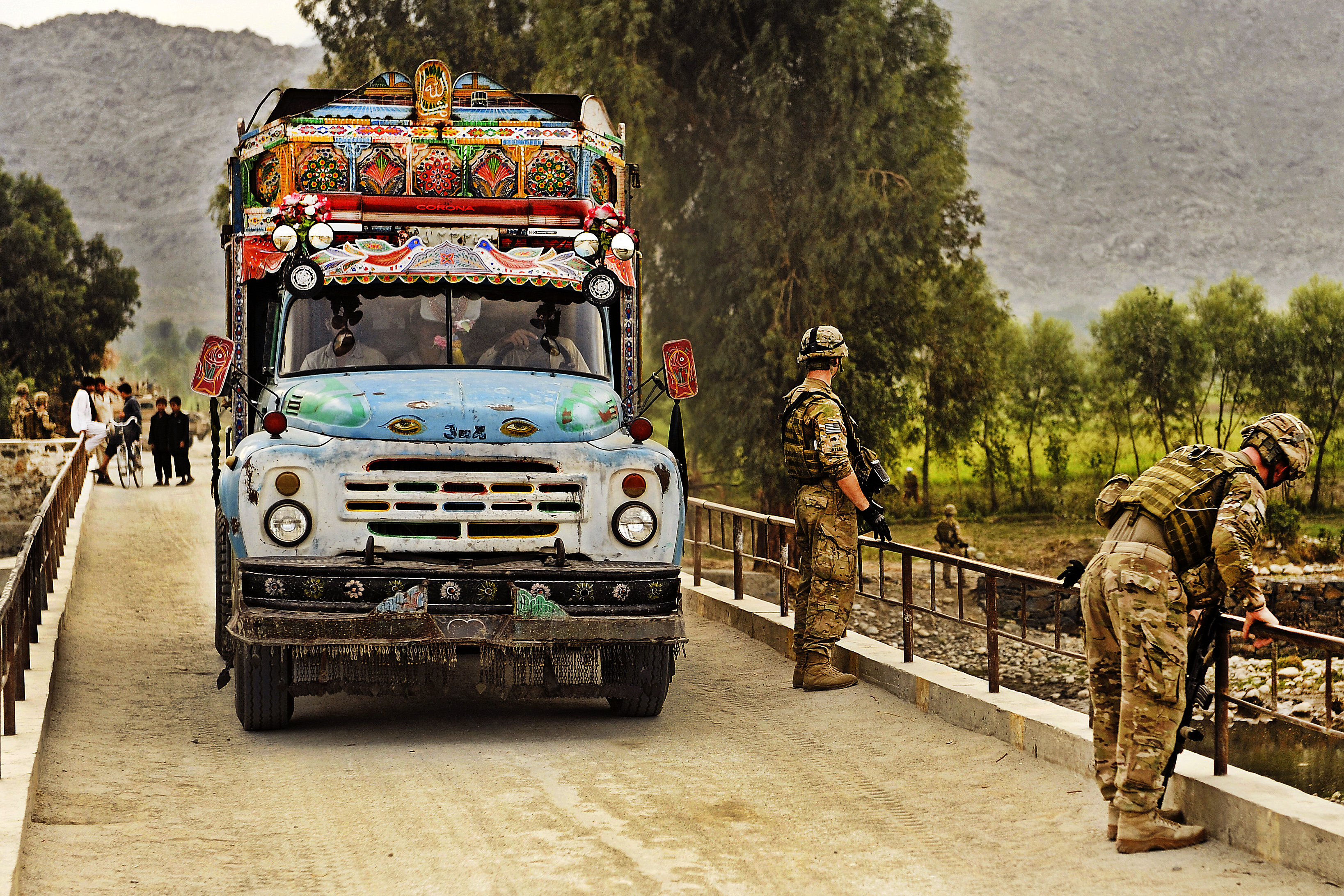 U.S. Air Force Capt. Jon Polston, right, inspects the Jugi bridge while a bus squeezes through the narrow roadway in Mehtar Lam in Laghman province, Afghanistan, Sept. 7, 2011. Polston is the lead engineer assigned to the Laghman Provincial Reconstruction Team. U.S. Air Force photo by Staff Sgt. Ryan Crane